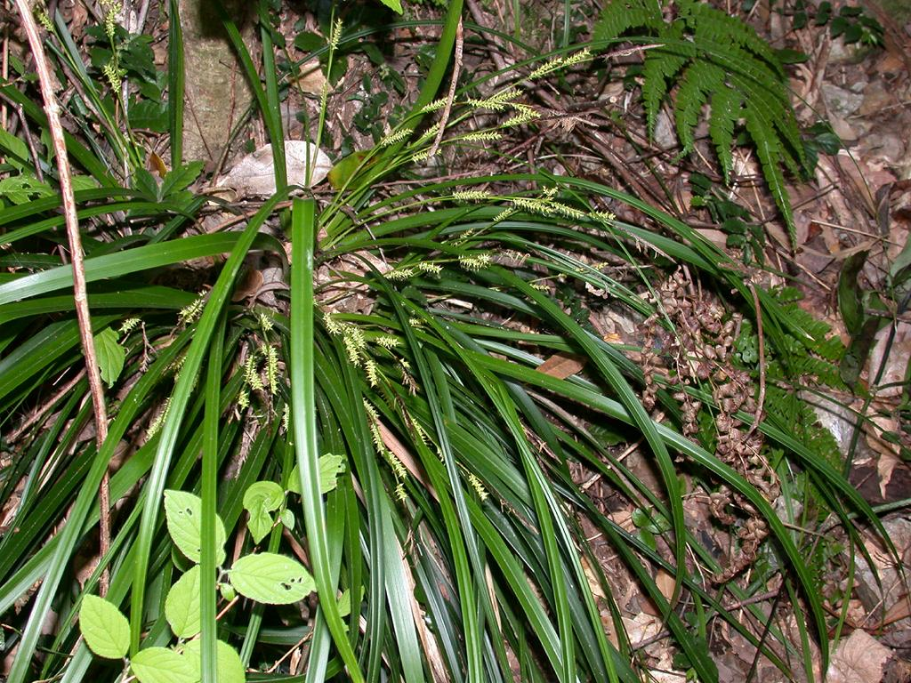 Carex morrowii (Cyperaceae) Japanese name;Kansuge date:2007.04.12:Susami Town,Wakayama pref.Japan Author;Keisotyo